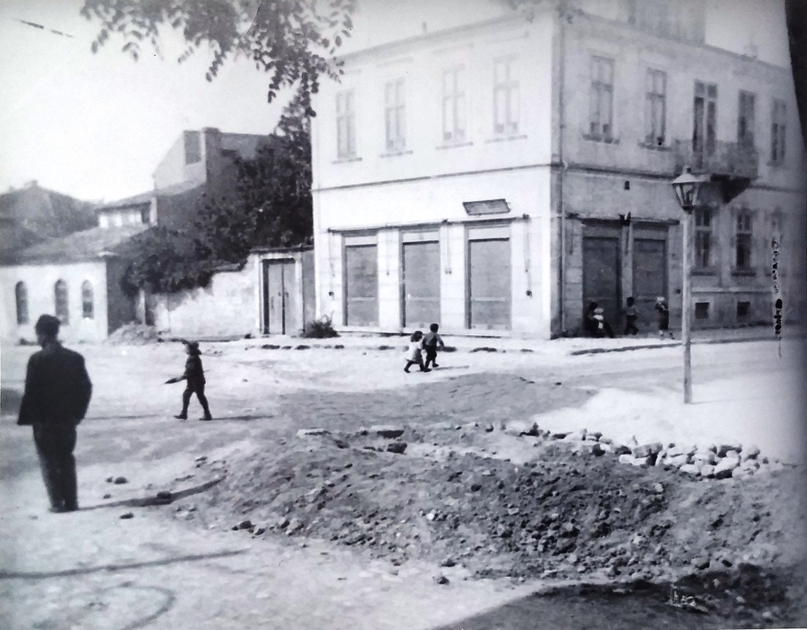 Photos of streets in Varna.